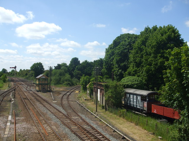 Wymondham box, near to Wymondham, Norfolk, Great Britain. This scene has changed little over the years, the only real changed being the singling of the MNR line (to the right) and the abandonment of the turntable and coaling area behind the signal box. Also the tank for the water tower has been removed. A couple of recent additions to the list include the end of telegraphing in April 2009 and the painting of the signal box.